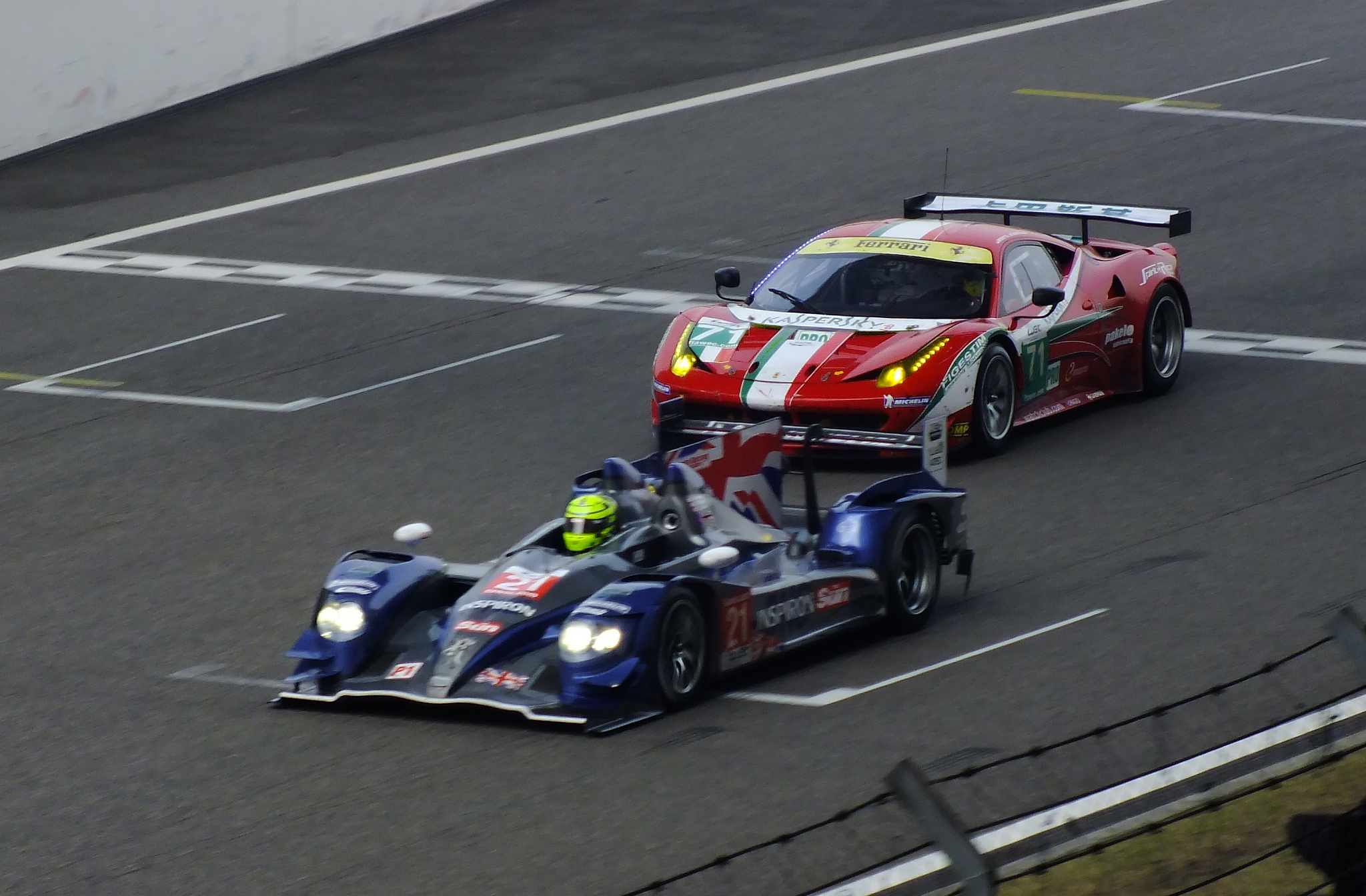 Danny Watts in the Strakka Racing HPD ARX-03a-Honda and Olivier Beretta in the AF Corse Ferrari 458 Italia GTC at the 2012 6 Hours of Shanghai